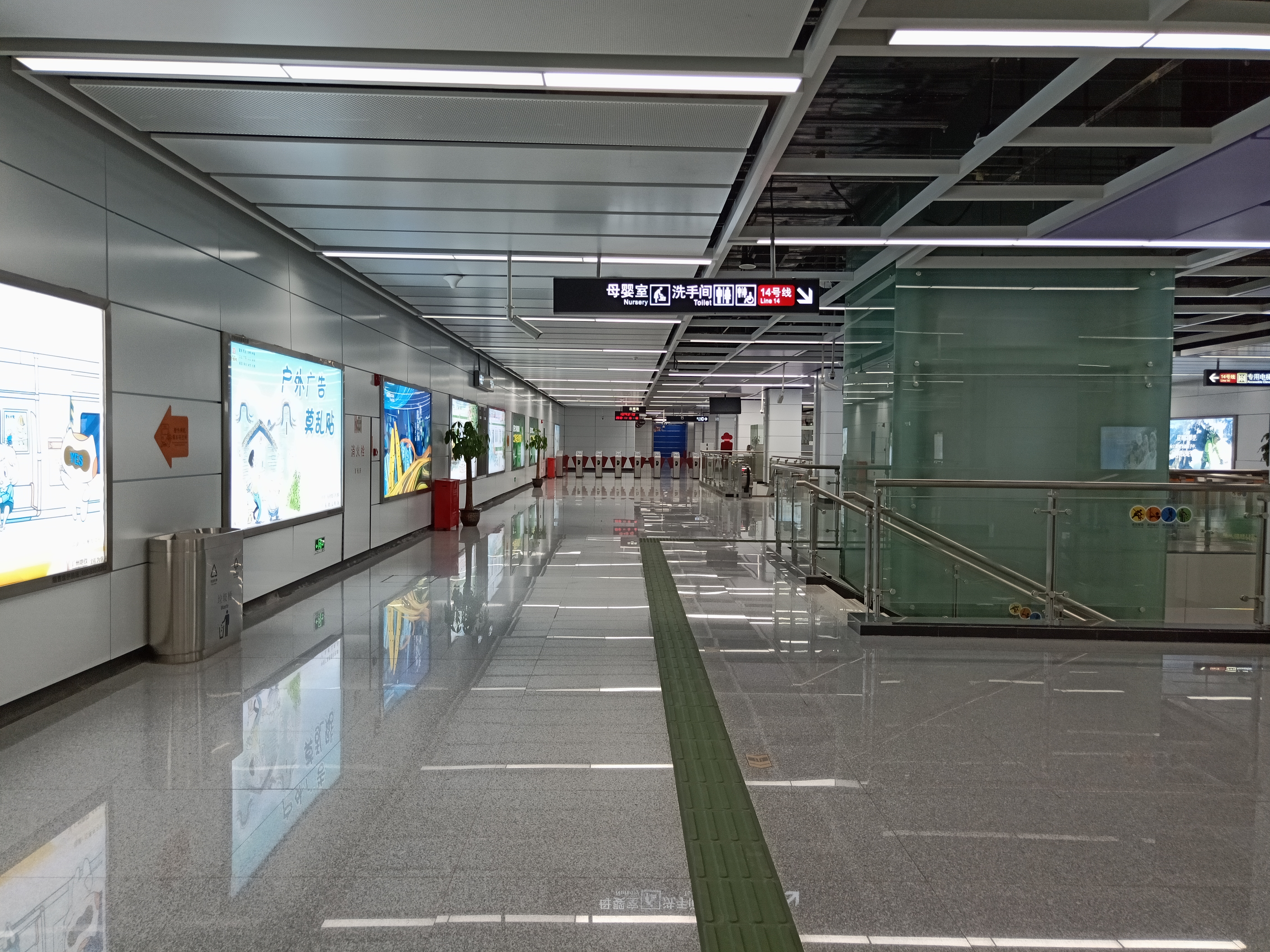 Station Concourse for Wangcun Station in Guangzhou Metro.